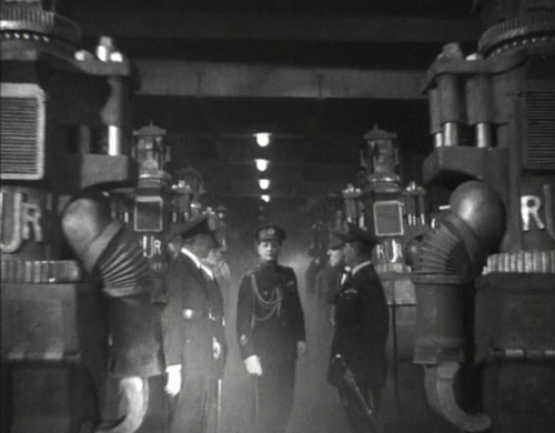 A scene from Soviet film "Loss of sensation", 1935